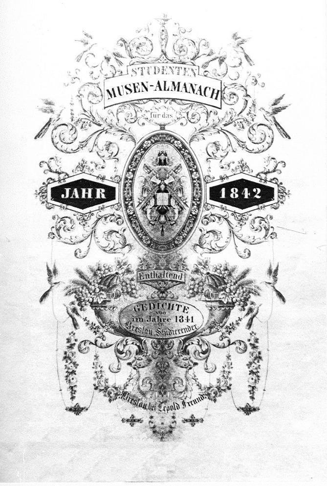 Title-page